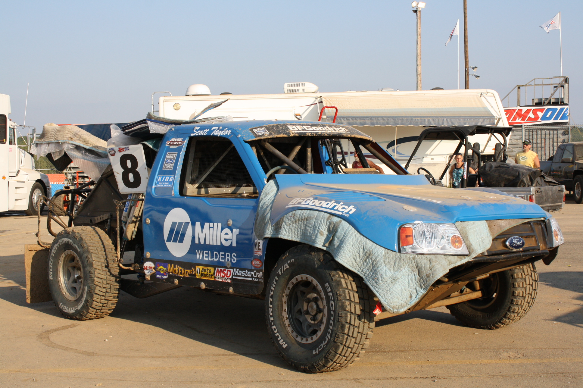 The Pro 2 trophy truck for Scott Taylor (racer) in the pits at the BorgWarner World Championship races at Crandon International Off-Road Raceway sanctioned by the Traxxas TORC Series.